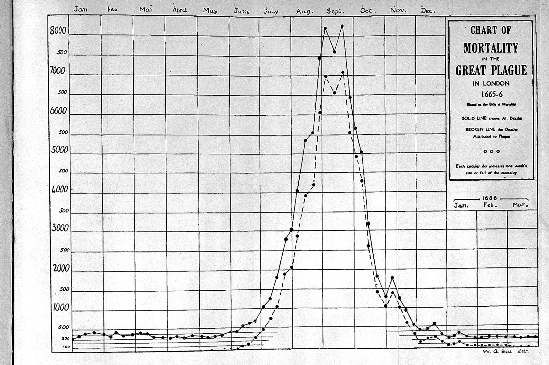 Chart of Mortality in the Great Plague in London, 1665 to 1666 General Collections Keywords: mortality chart